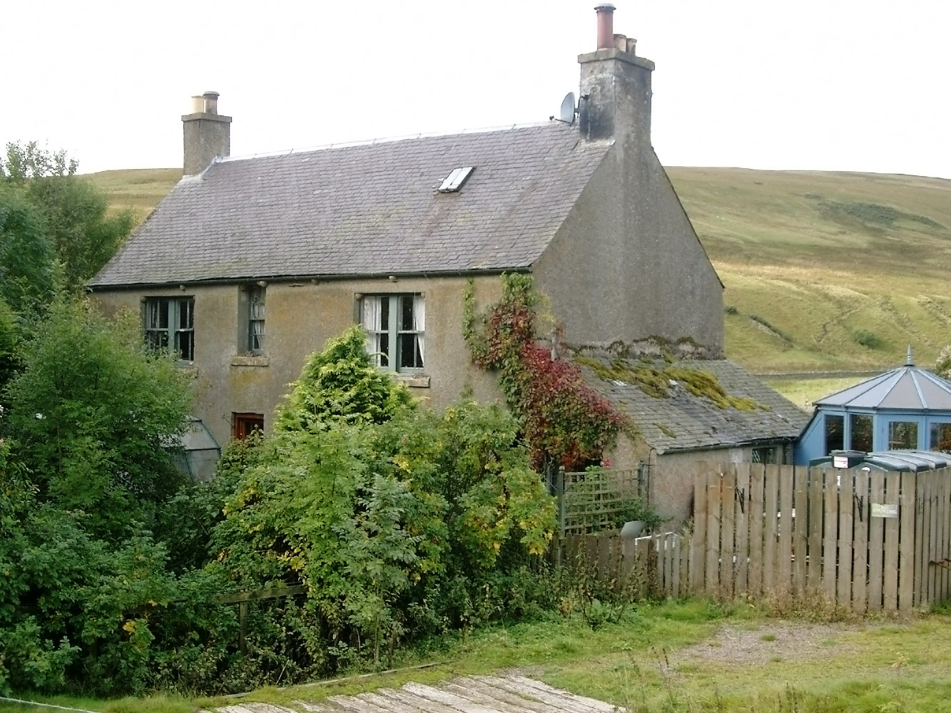 Farmhouse at Blackhouse. Next to the tower. James Hogg worked here.